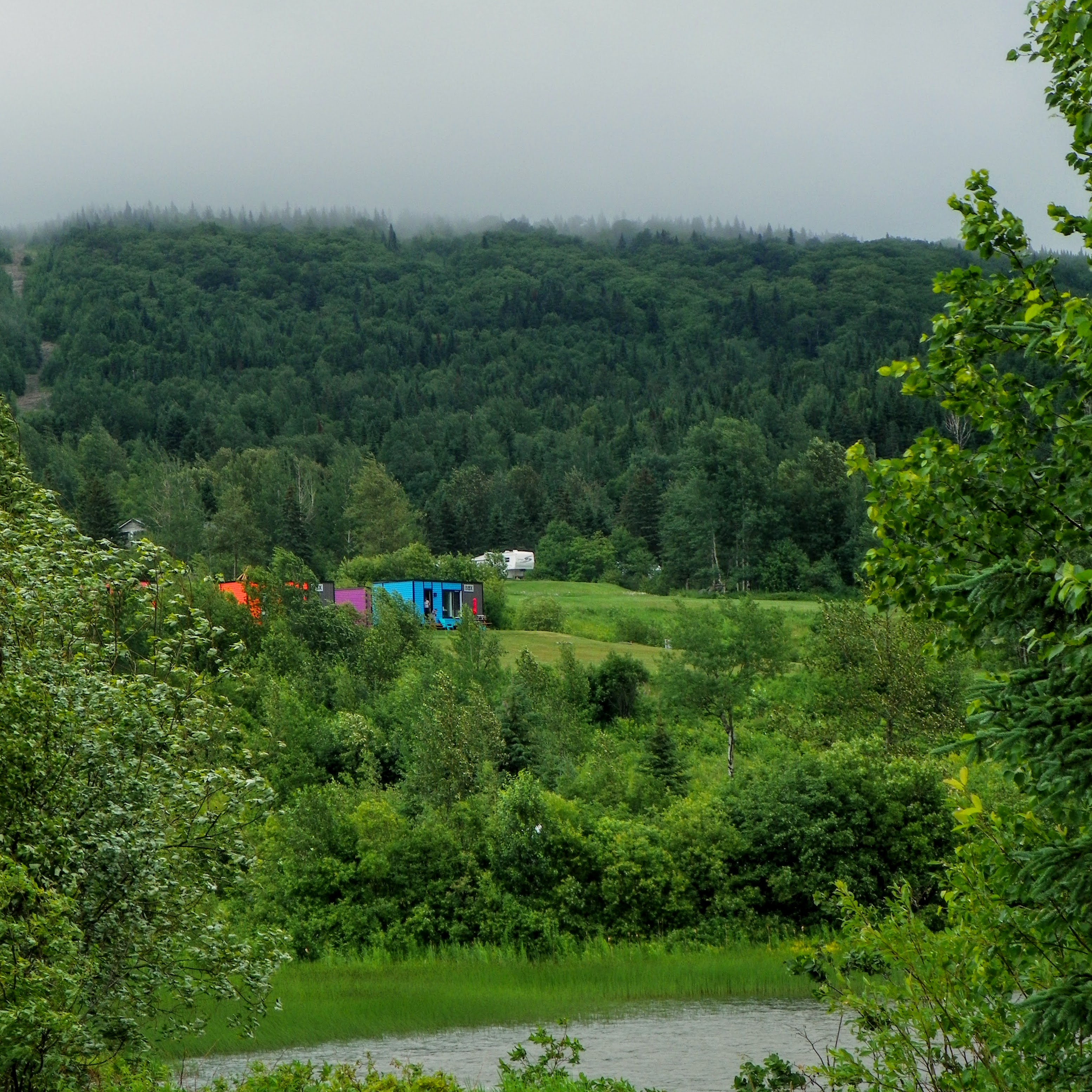 Pond and lodge in domaine du Radar on Sainte-Marguerite mountain, Saint-Sylvestre, Québec.